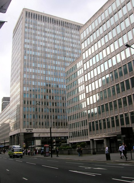 Westminster City Hall, Victoria Street SW1